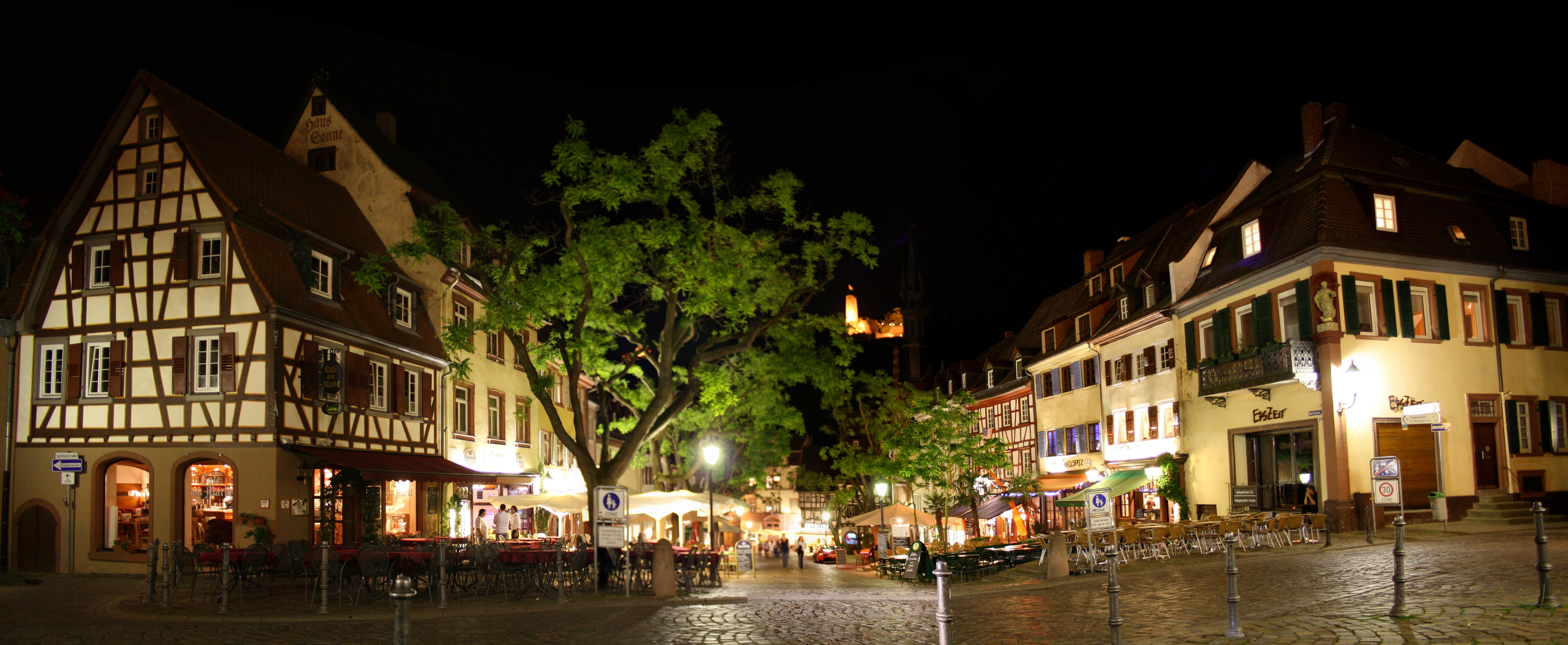 Weinheim Market Square at late evening